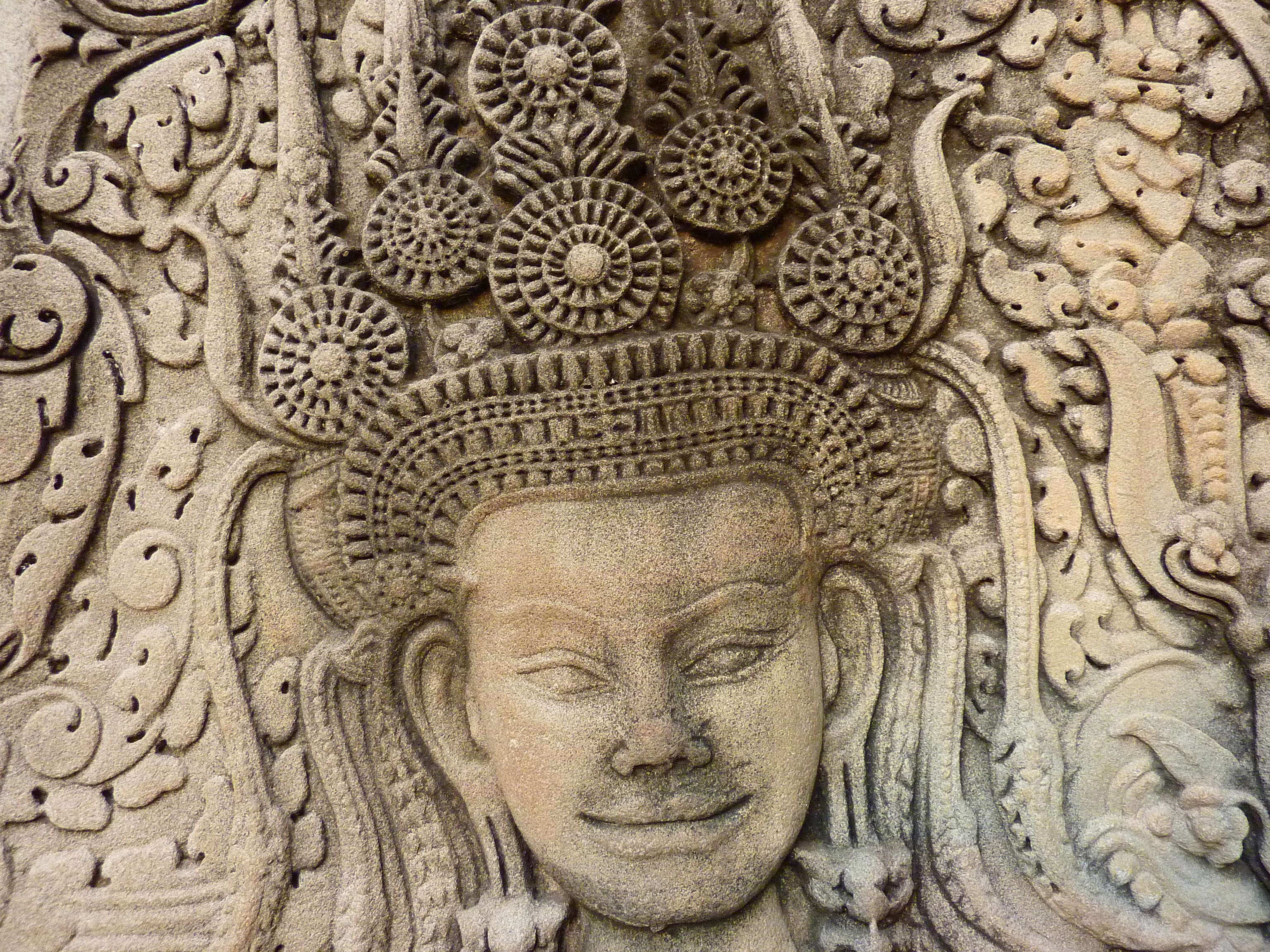 Apsaras at Angkor Wat, Cambodia